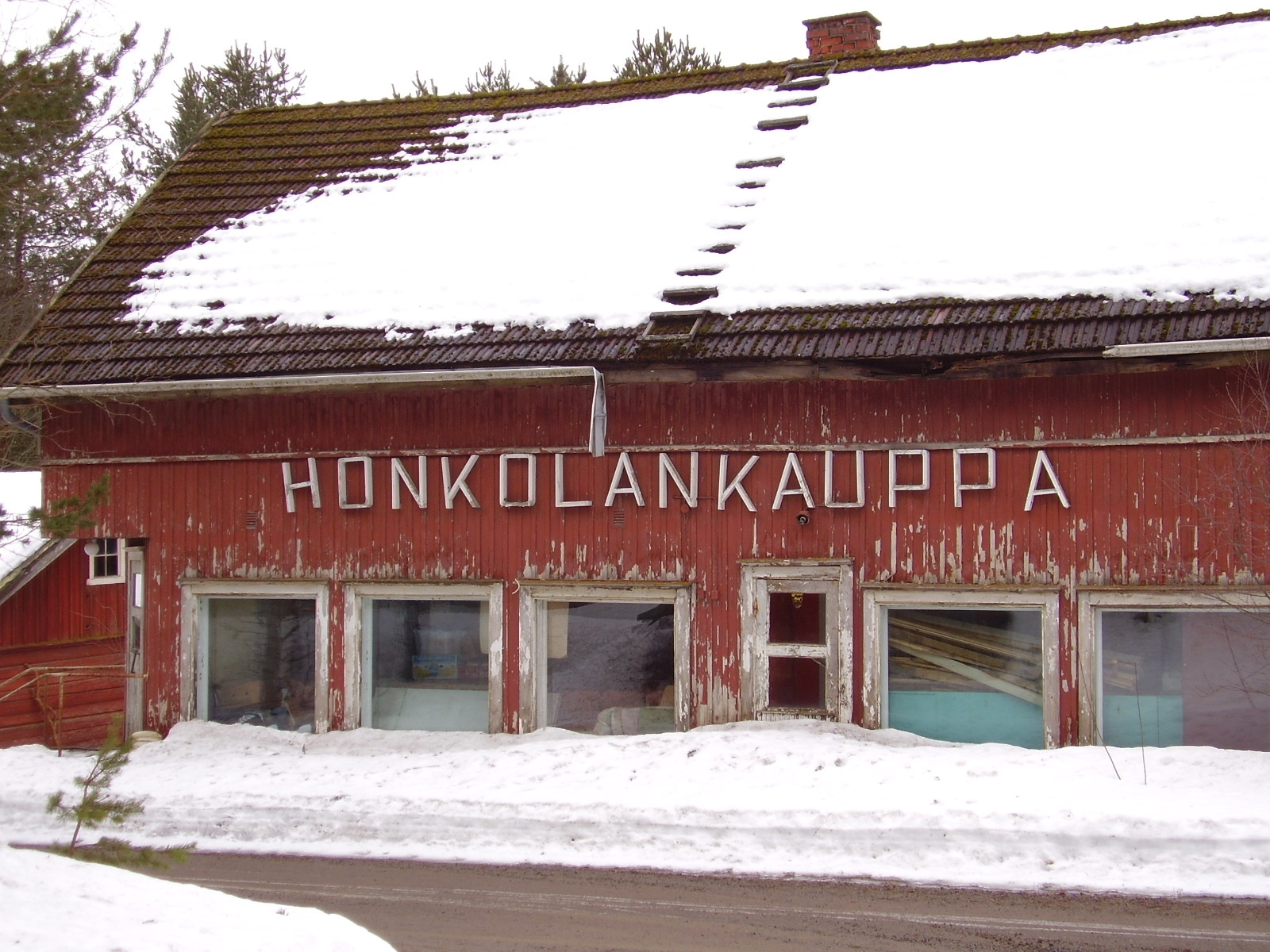 Closed old village shop in Honkola, Finland.